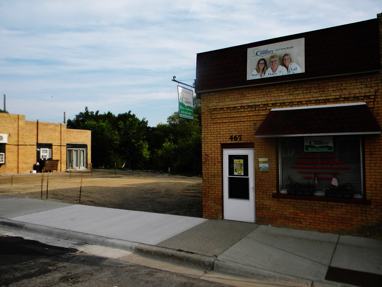 Big Stone City Hall Building may no longer be standing or addresses have changed.